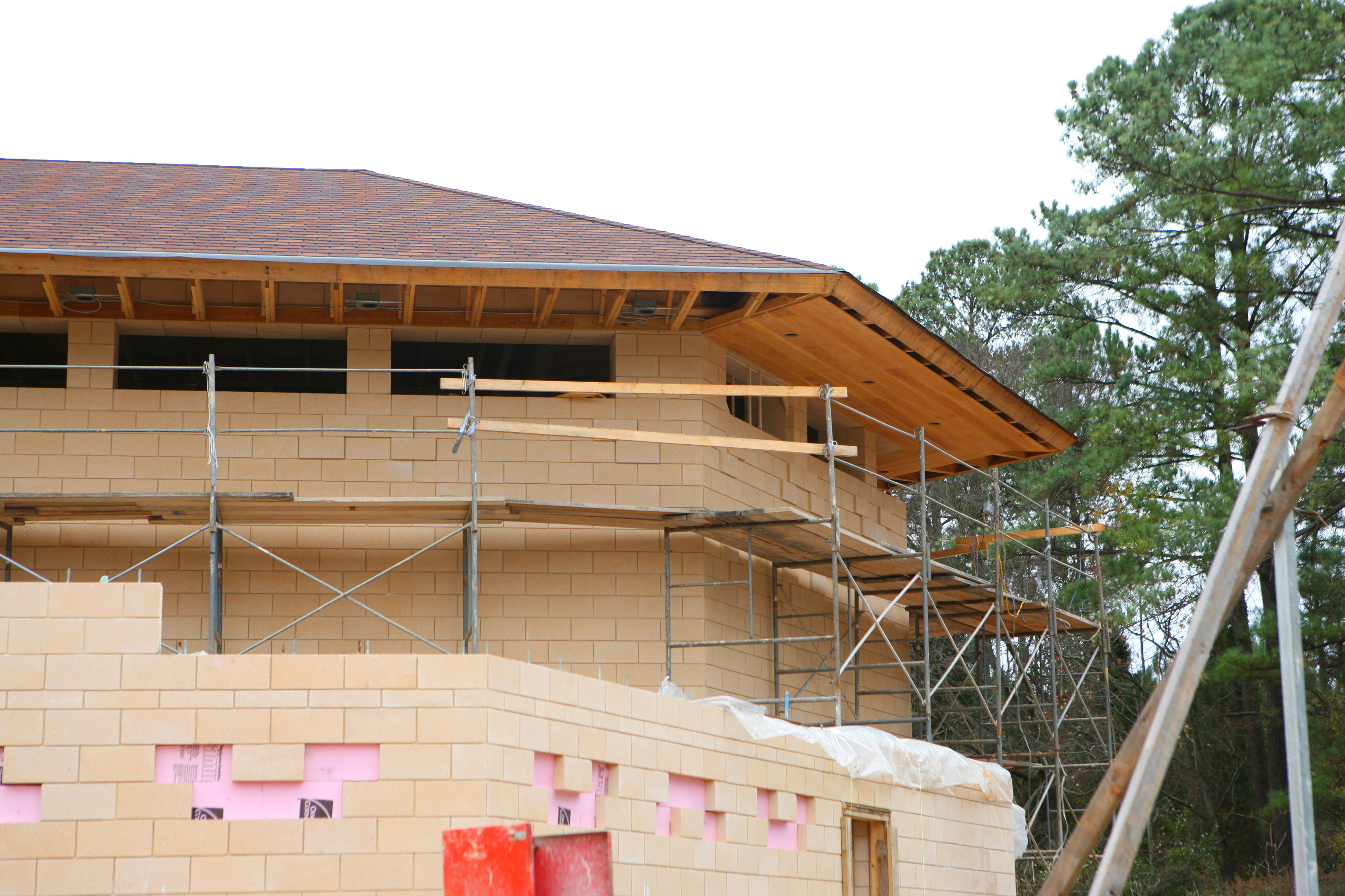 An example of lookout rafters midway between the lookouts being installed and being covered by cypress boards to complete an exterior soffit (aka roof eave).